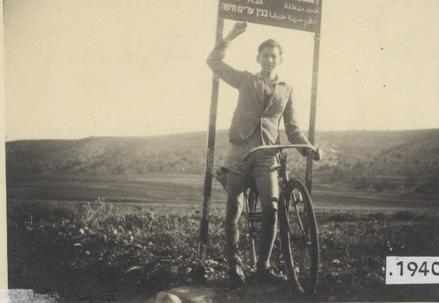 Uri Avnery (Hebrew: אורי אבנרי, also transliterated Uri Avneri, born 10 September 1923) is an Israeli writer and founder of the Gush Shalom peace movement.